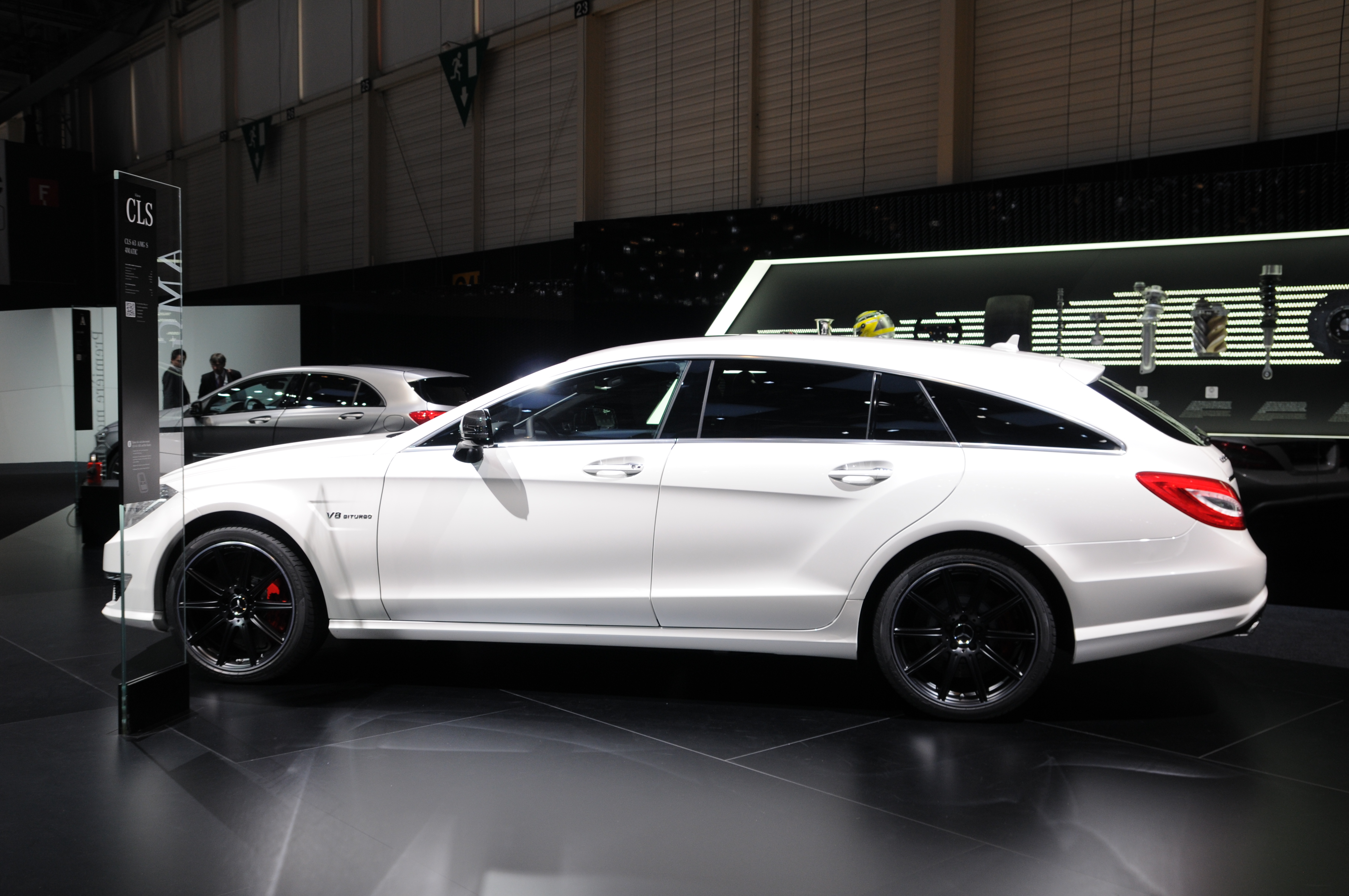 Geneva Motor Show 2013 (photos taken on the first press day)